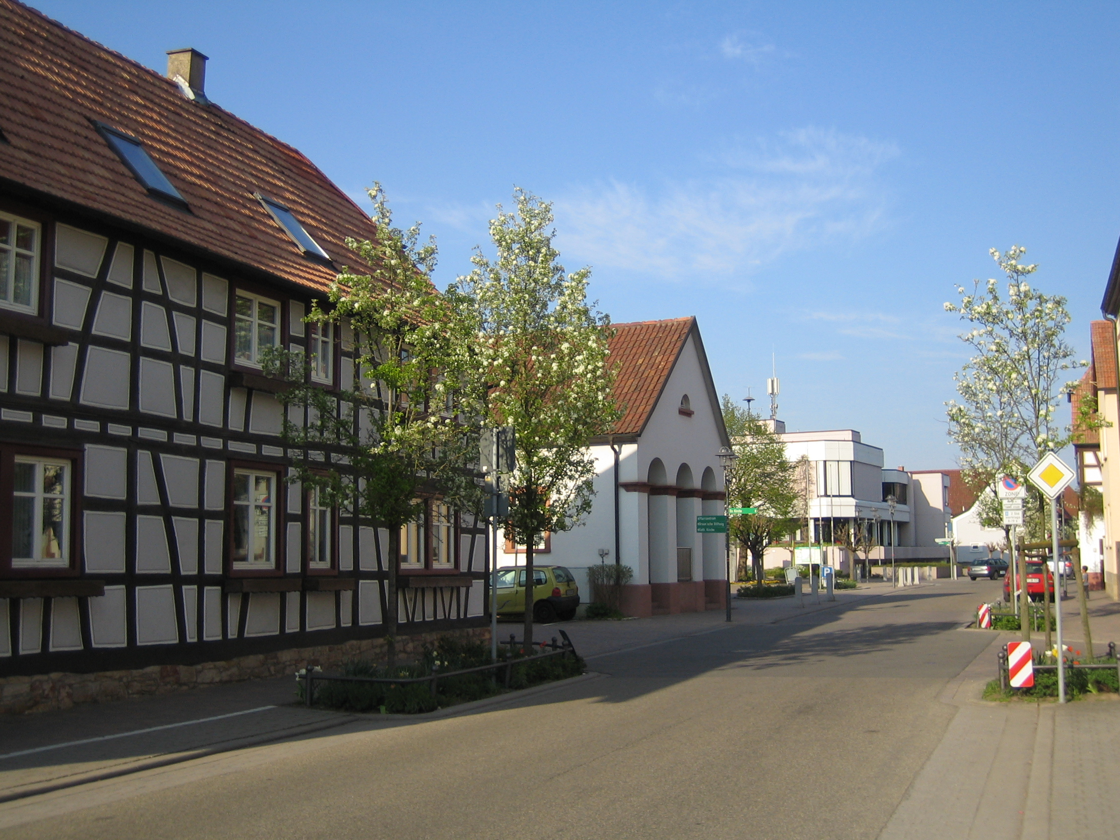 Mittlere Ortsstraße, Rülzheim, Rhineland-Palatinate, Germany